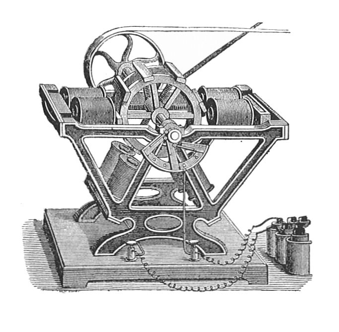 Froment's motor (Rankin Kennedy, Electrical Installations, Vol V, 1903).jpg